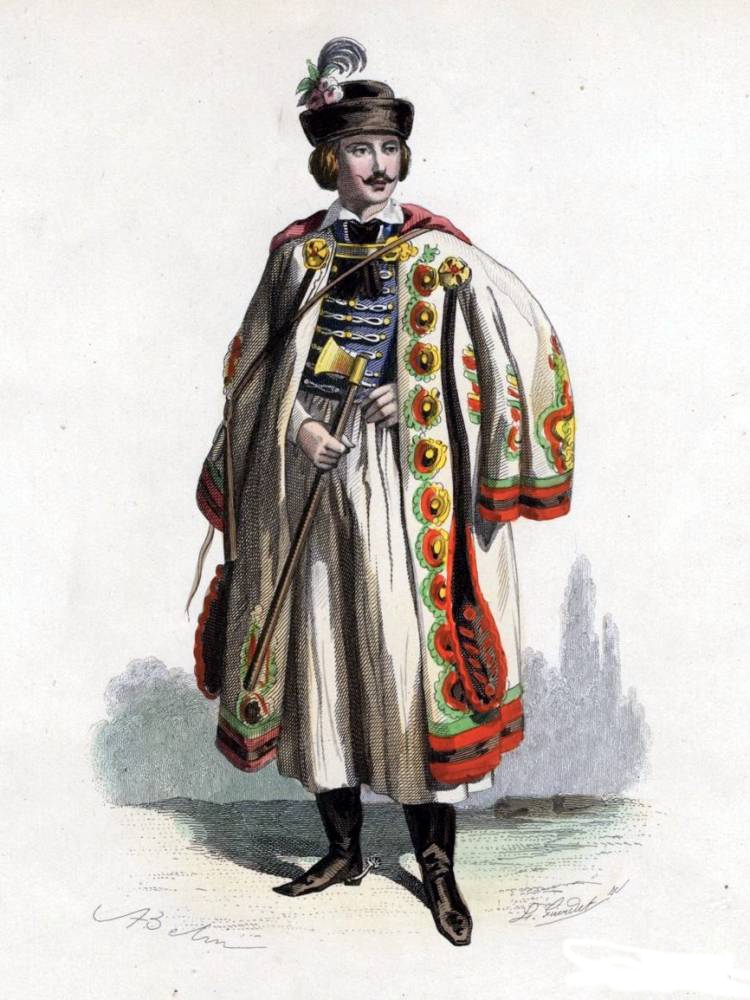 Hungarian cattle guard costume